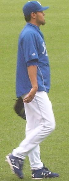 Joakim Soria, closing pitcher for the Kansas City Royals.